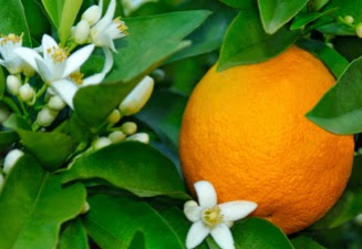 Orange Blossom Flower picked to produce blossom water